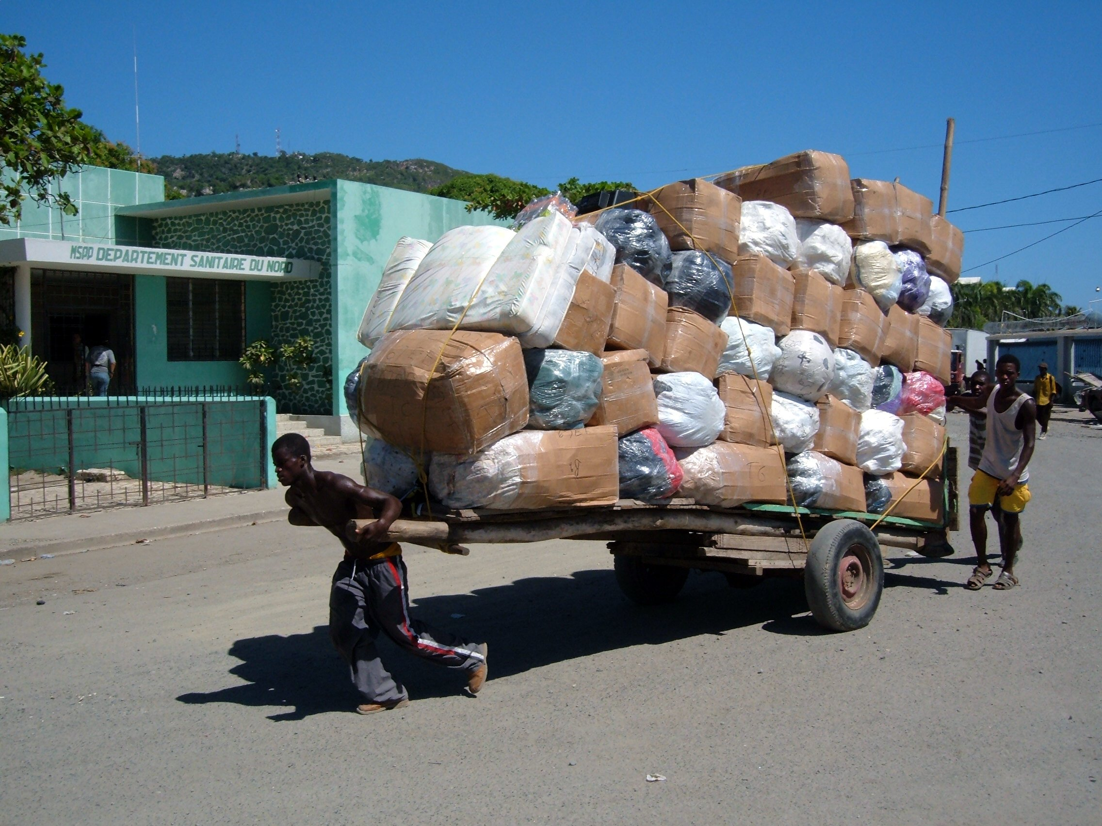 Dockworkers in Cap-Haitien, Haiti.